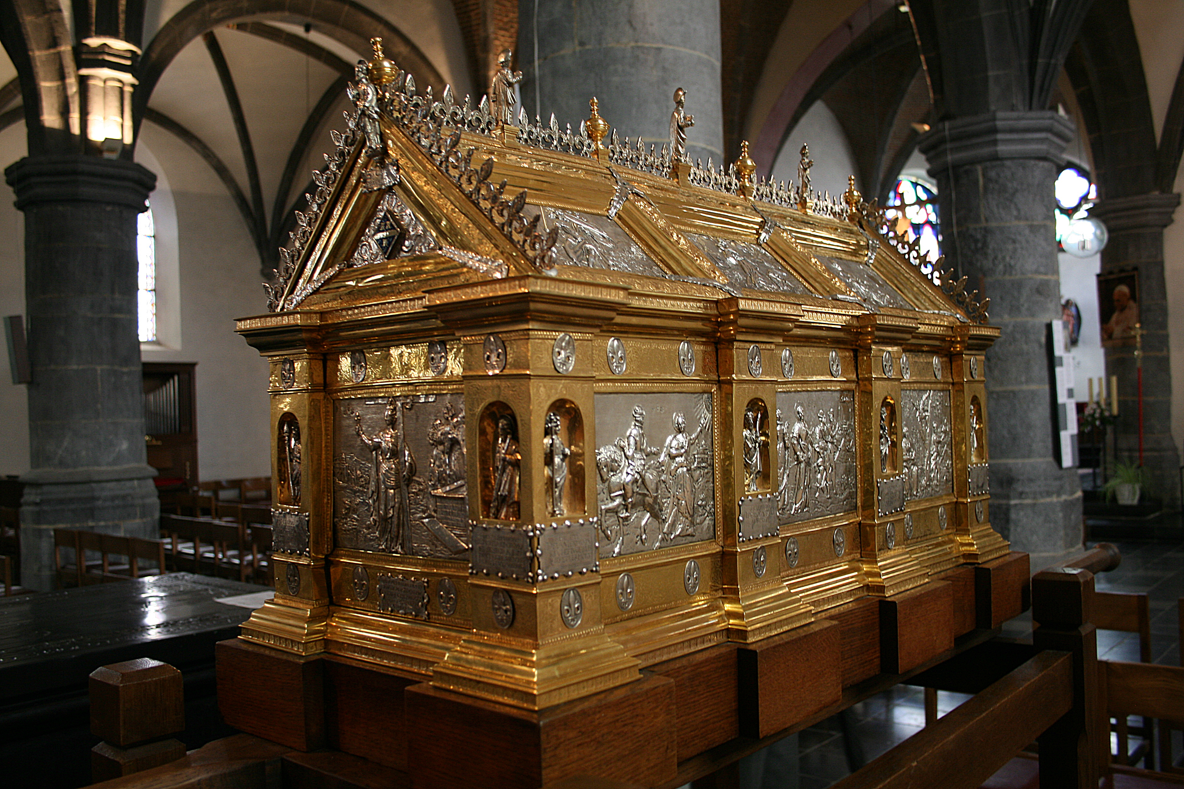 Gerpinnes (Belgium), Saint Michel and Saint Rolende church - Saint Rolende reliquaries - Shrine of Saint Rolende (work of the goldsmith workshops of Henri Libert dated of 1599).